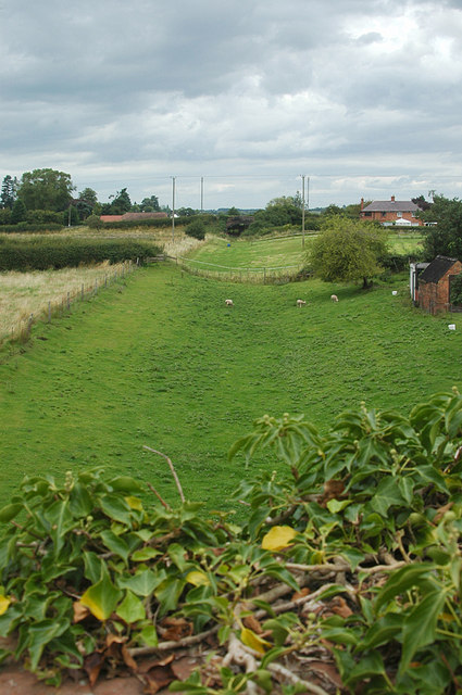 Route of the old railway line to Market Drayton